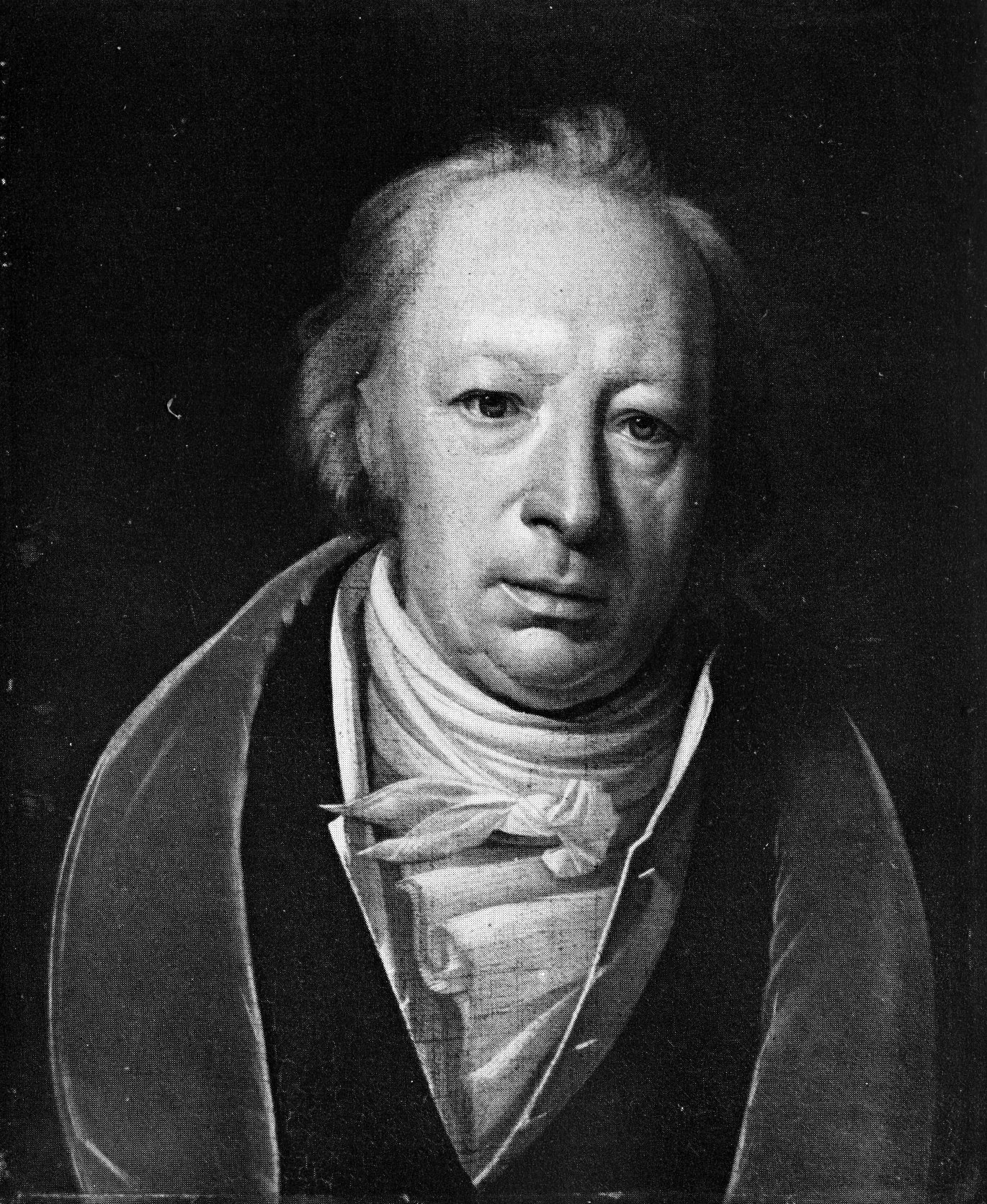 Friedrich August Wolf (1759-1824); 1823; 54:45 cm